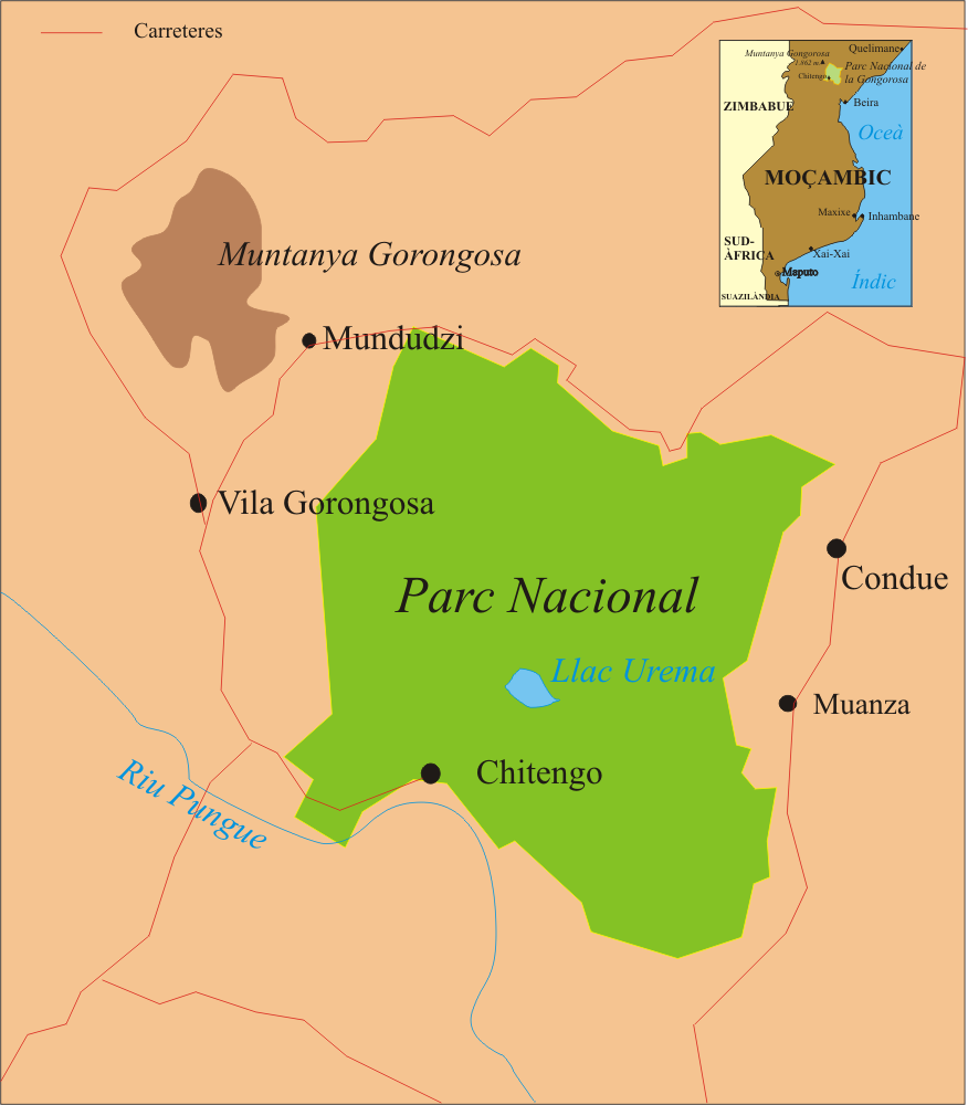 Gongorosa map